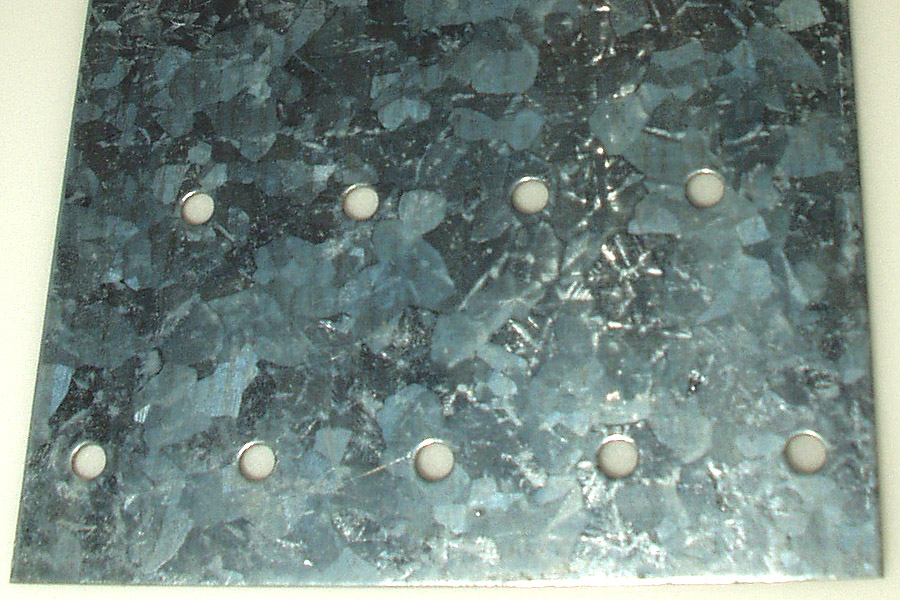 A galvanized surface (a steel "strong-tie" joiner) showing visible spangle (of approx. 5mm).